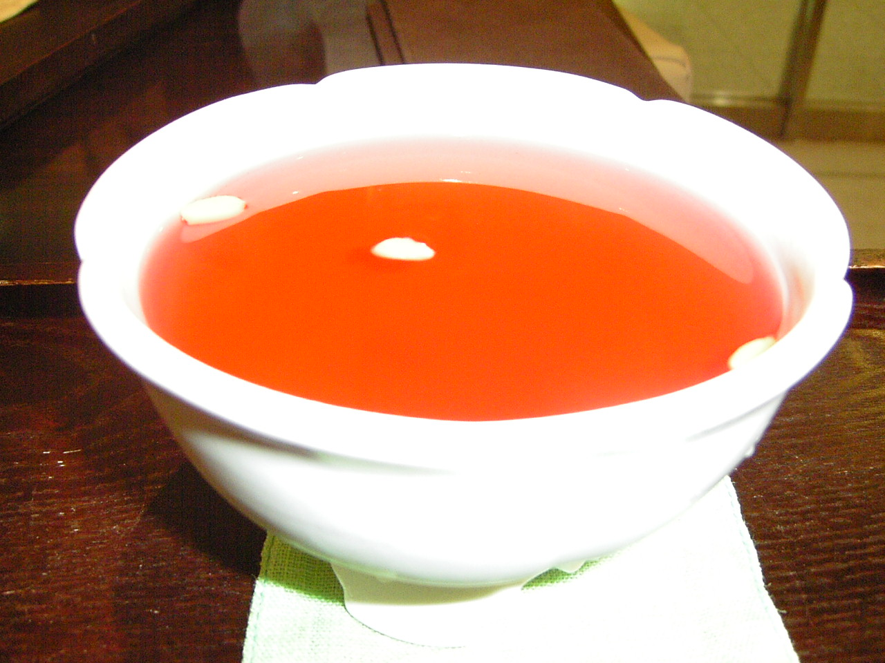 Omija cha (오미자차, 五味子茶): Tea made from dried fruits of Schisandra chinensis.